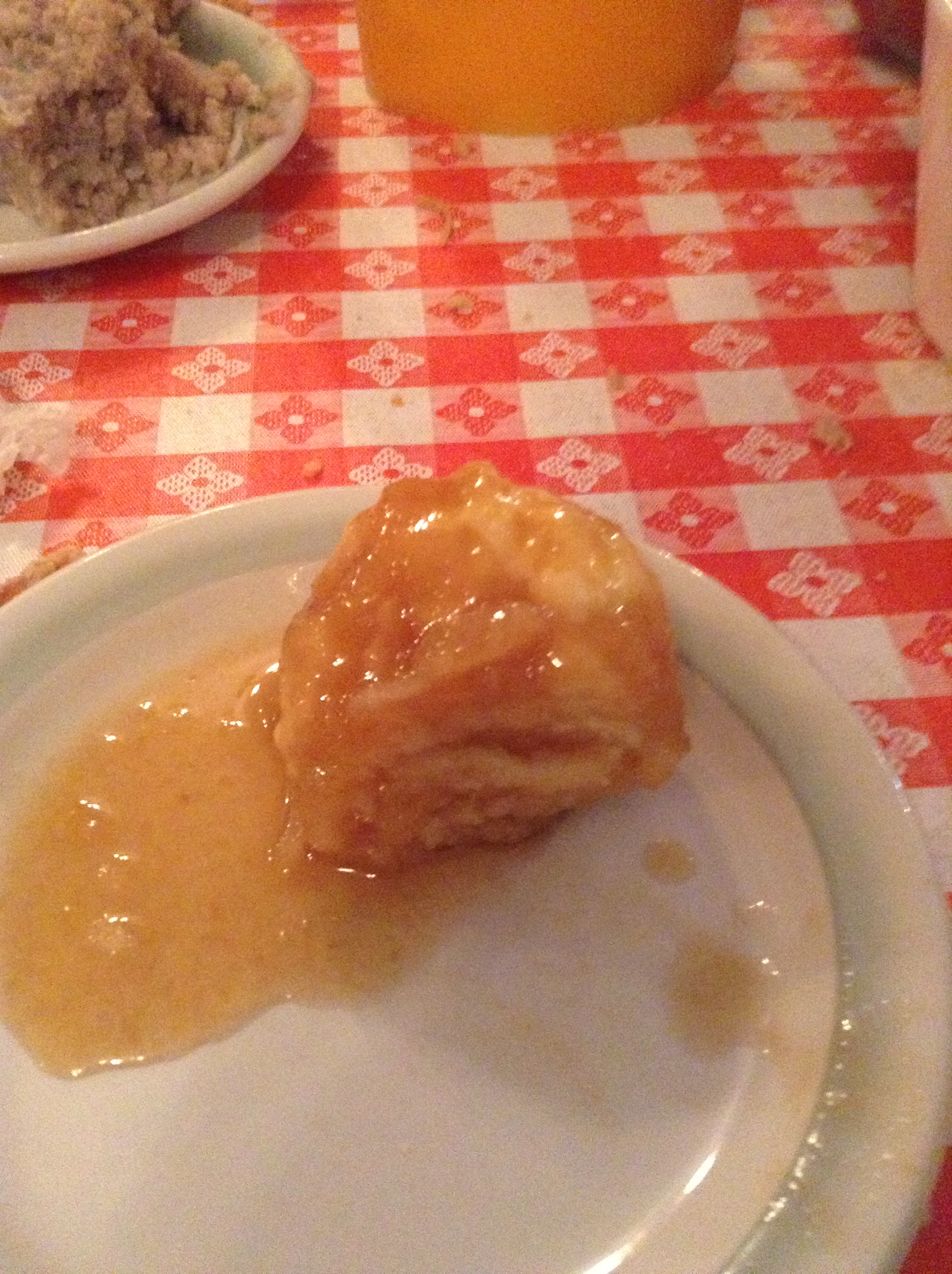 Traditional receipe from Québec with maple syrup.